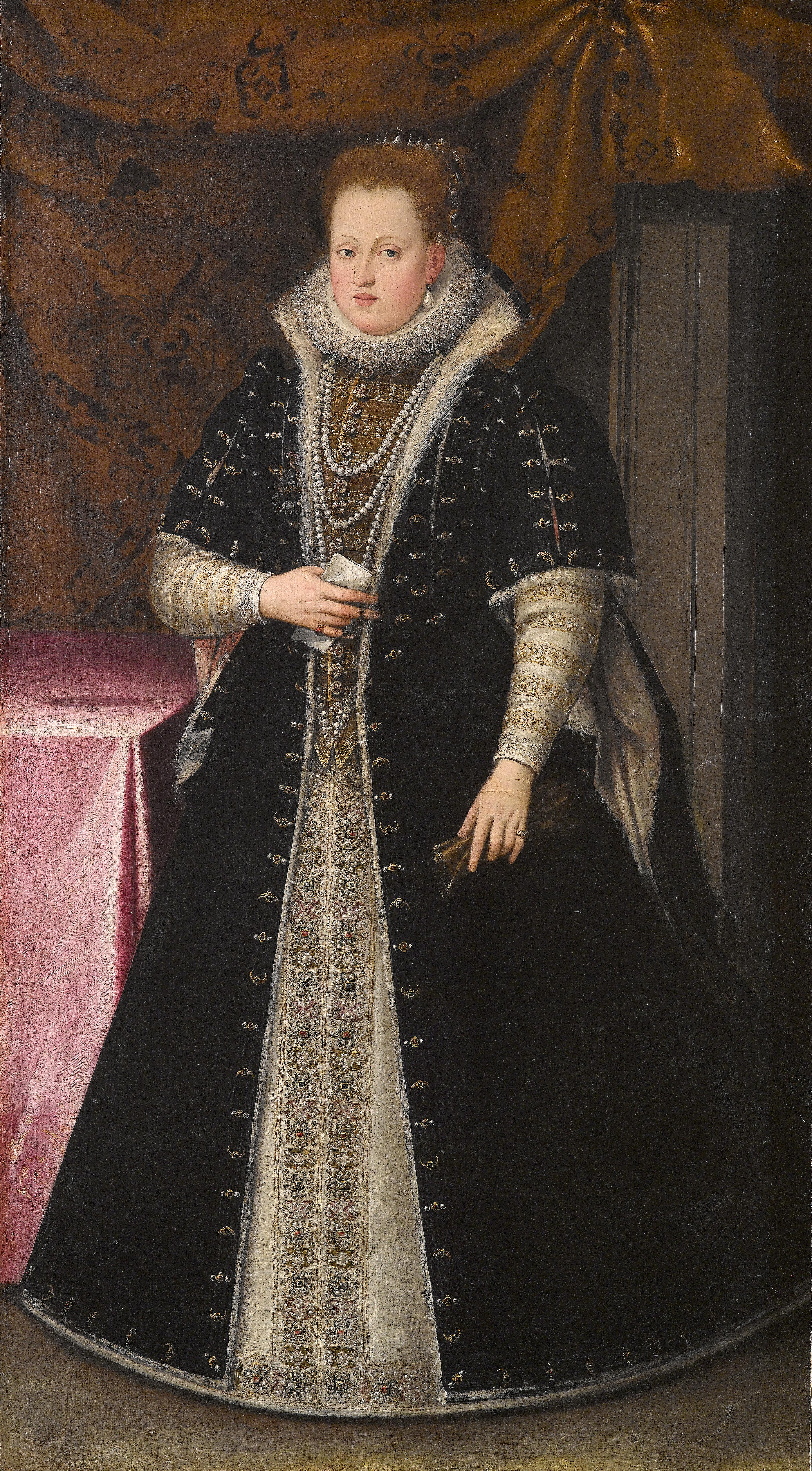 Portrait of Margherita Gonzaga Este (1564-1618), daughter of Duke Guglielmo Gonzaga, sister of Vincenzo I, and wife of Alfonso II d´Este, the last duke of Ferrara